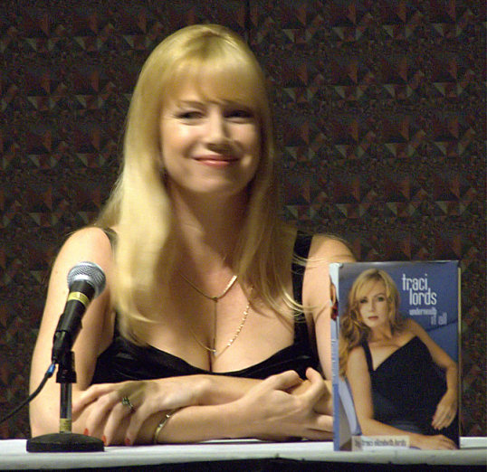 Traci Lords at the 2006 DragonCon in Atlanta, Georgia on September 3, 2006